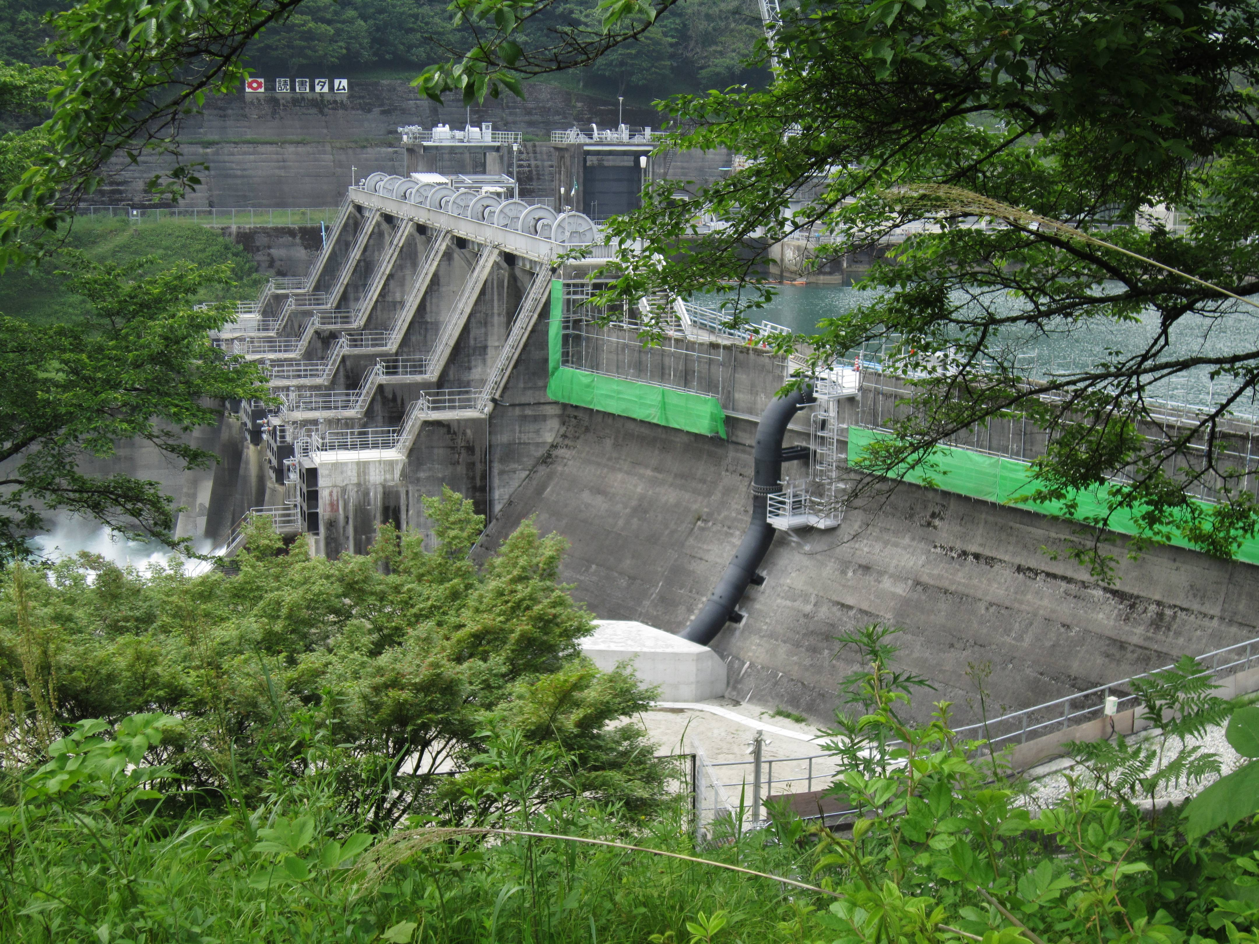 Yomikaki Dam.